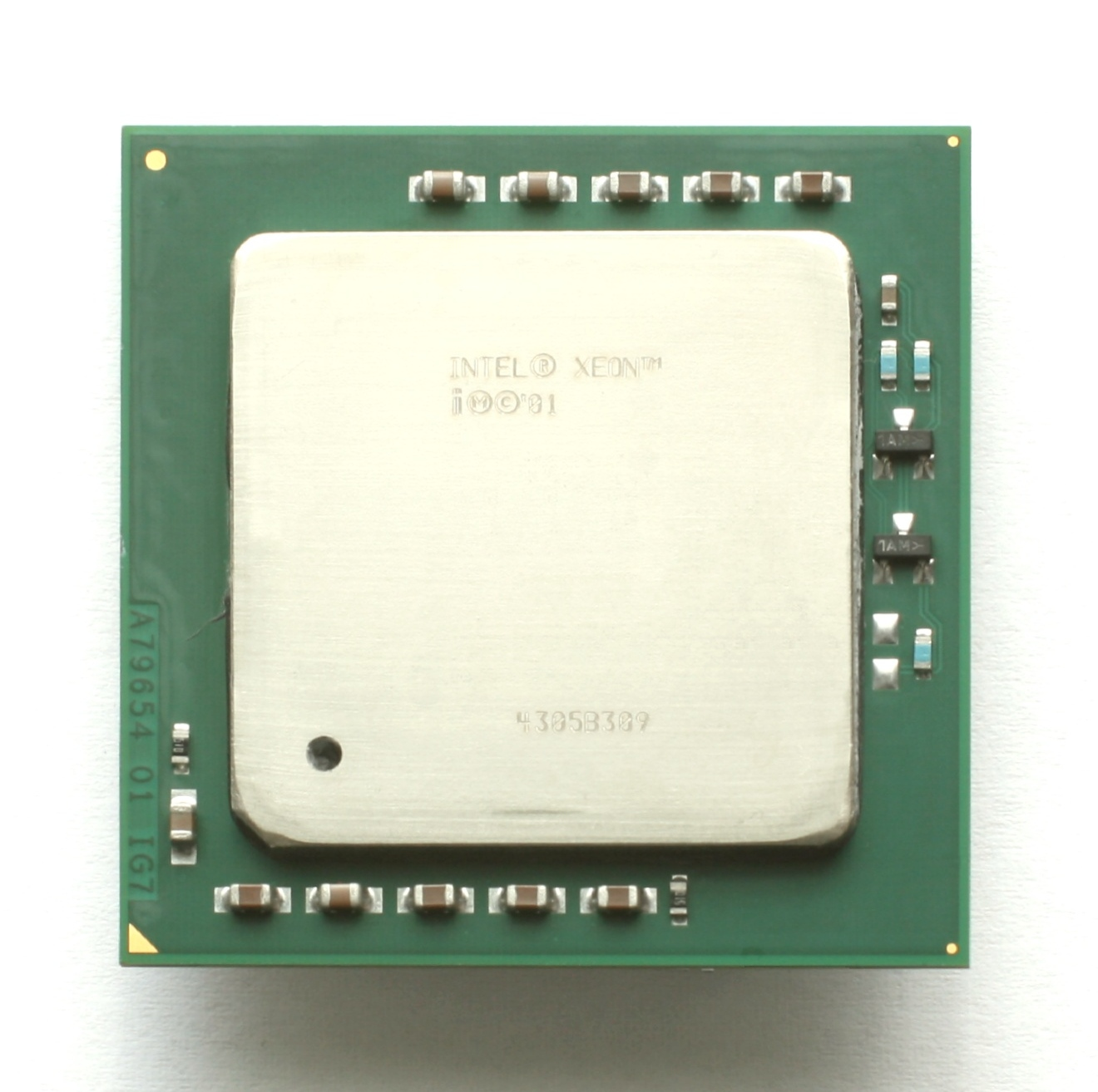 CPU Intel Xeon Prestonia-0 for Socket 604, sSpec: SL6GF (Wrong filename!)